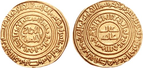 AV Fatimid dinar (4.14 g, 9h) minted in Cairo (Egypt) in 514 AH (1119/20 AD) during the reign of al-Amir bi-Ahkam Allah